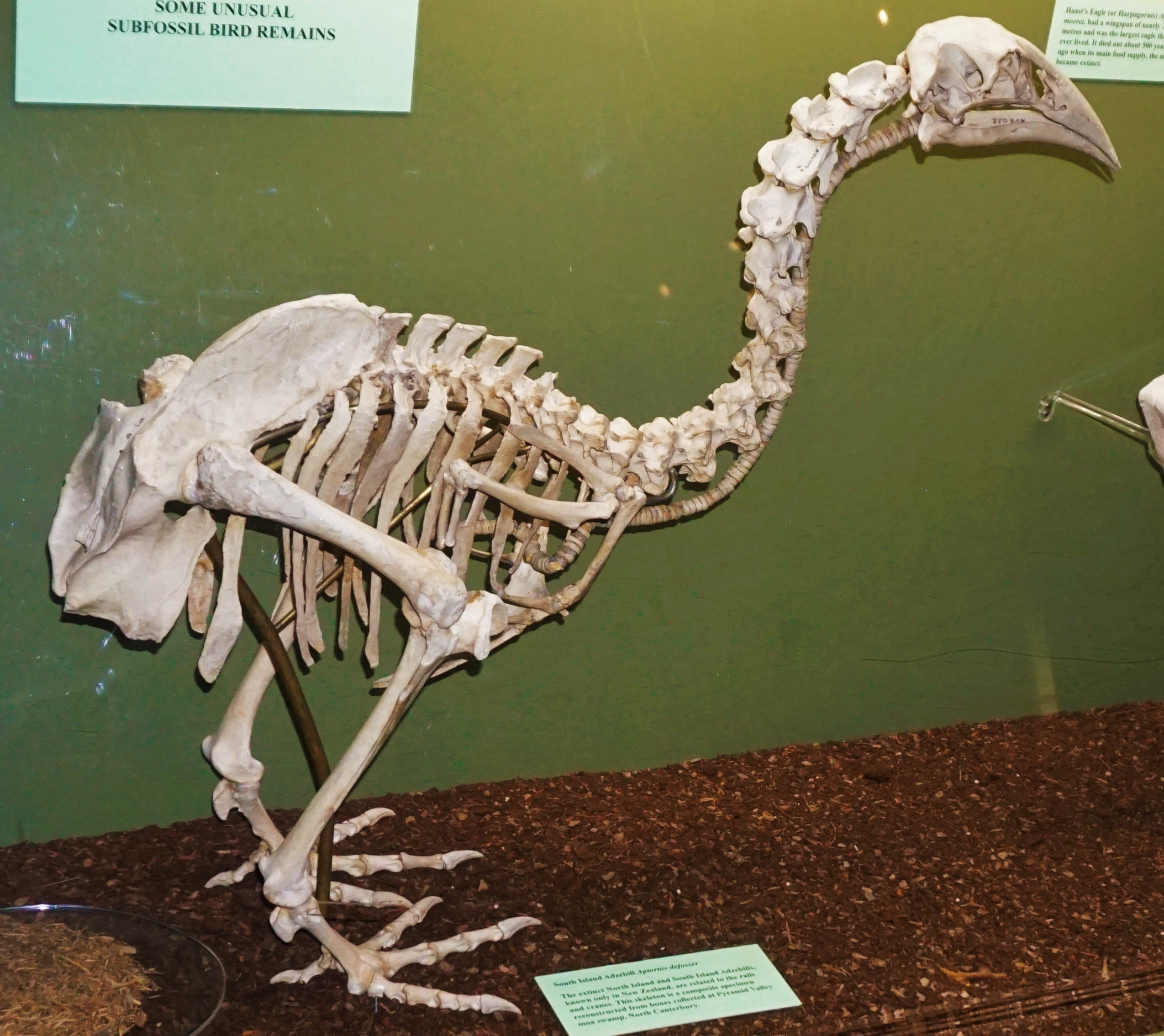 Canterbury Museum, Christchurch